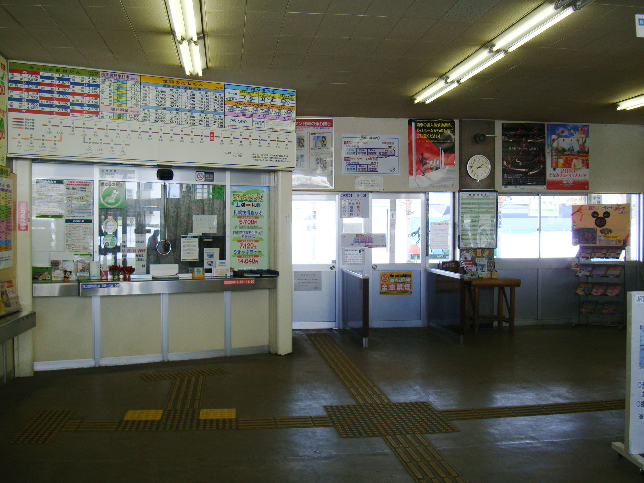 Shibetsu Station